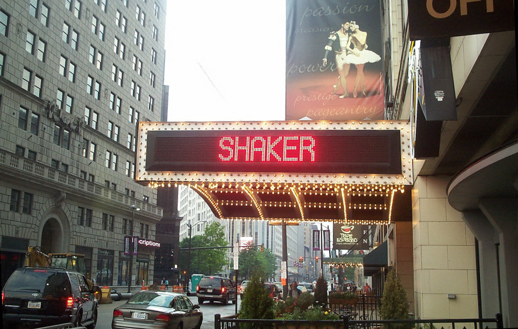 View of the Ohio Theater's marquee on Euclid Avenue, looking west, in Cleveland, Ohio. On the left is the Hanna building.